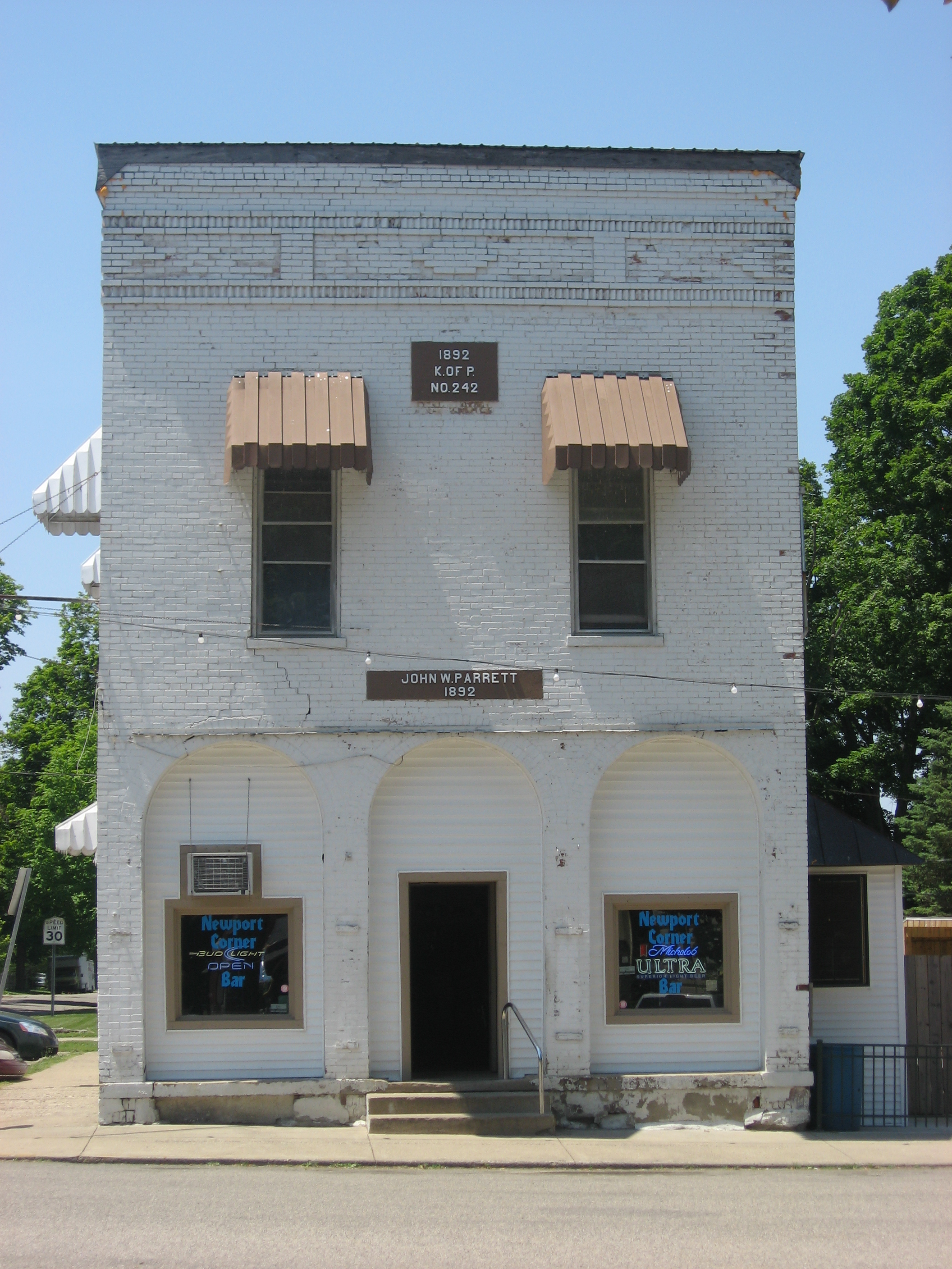 Front of the former Knights of Pythias Building (now the Newport Corner Bar), located at 295 Vermillion Street on Courthouse Square in Newport, Indiana, United States. Built in 1892, it is part of the locally designated Newport Courthouse Square Historic District.